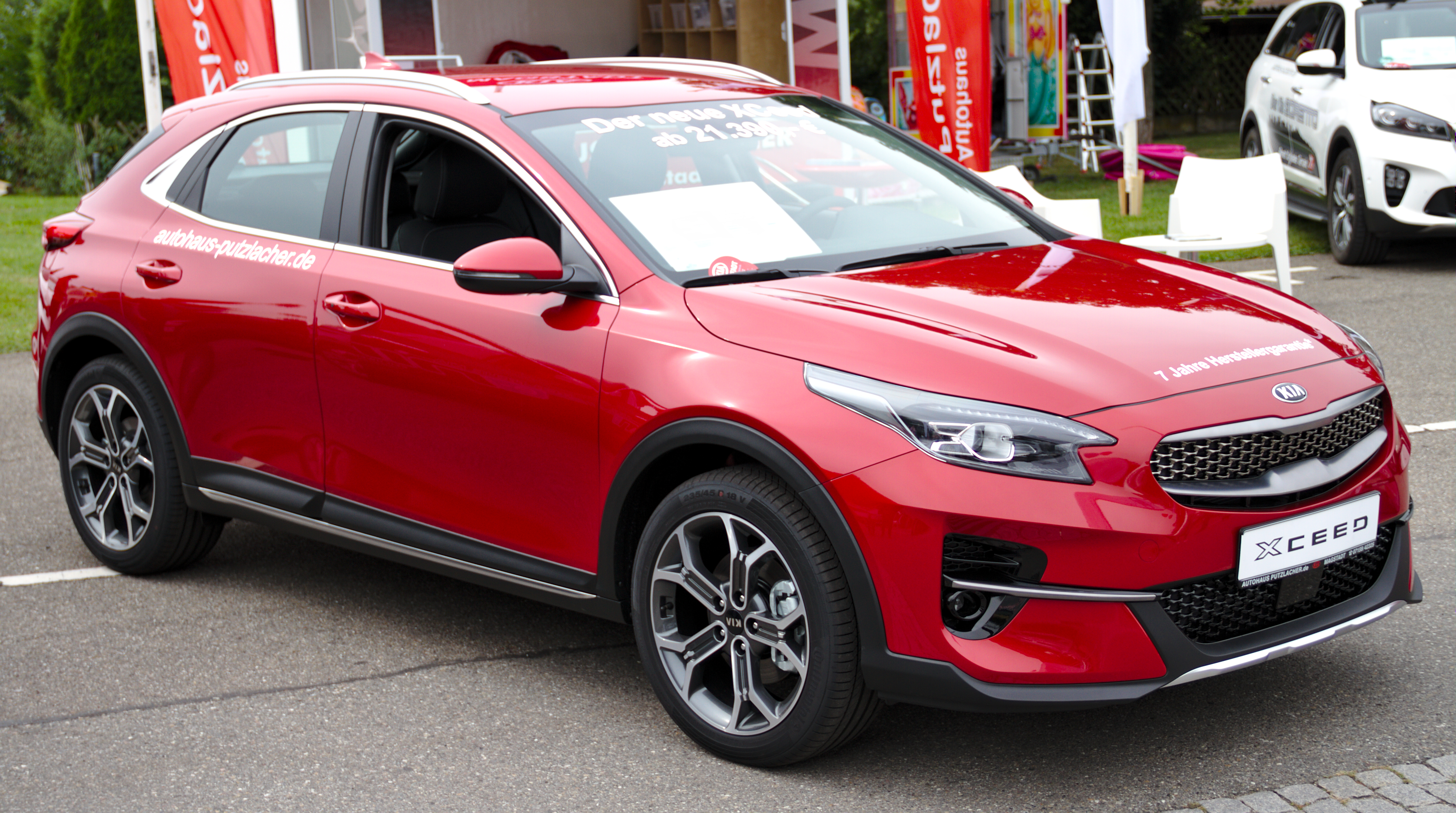 Kia_XCeed at Leonberger Autoschau 2019